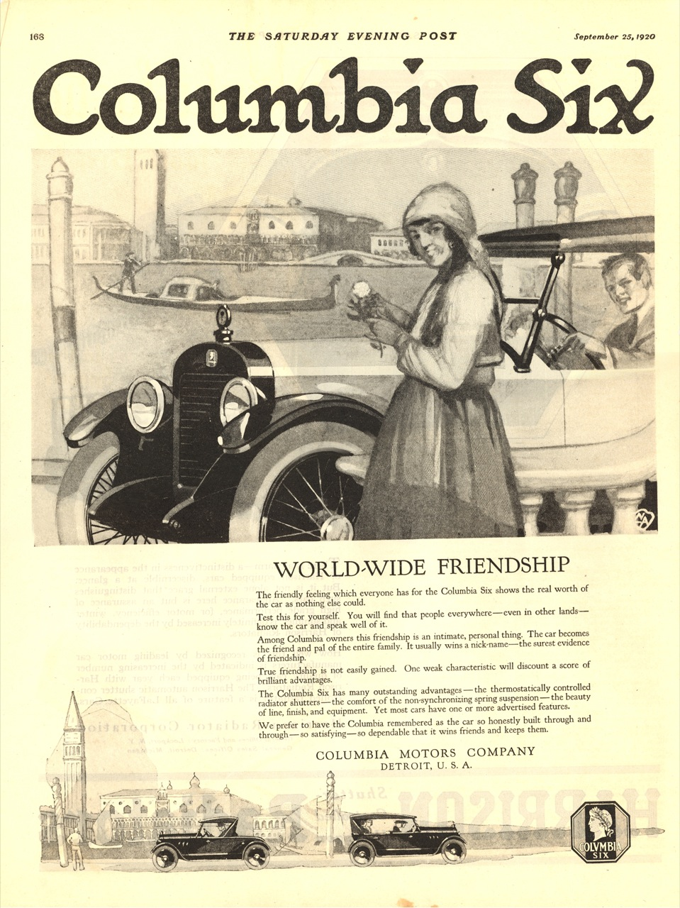 1920 advertisement for Columbia Six automobile. Note advertising artwork curiously shows the car in Venice, the city without automobiles.